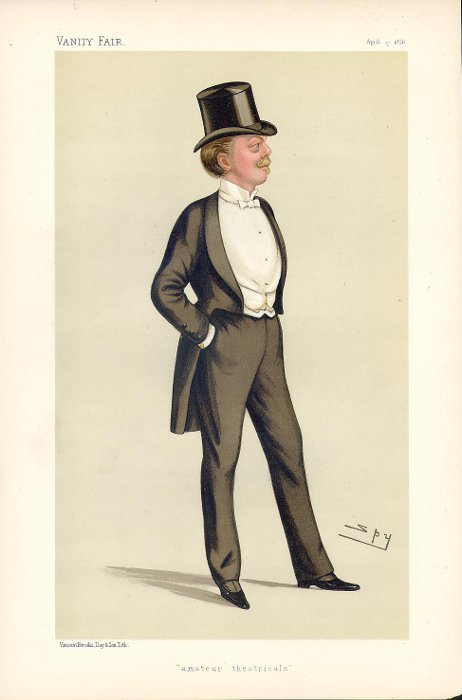 Statesmen No.487: Caricature of Mr HC Gardner MP. Caption reads: "amateur theatricals"